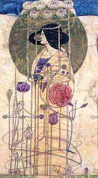 Photograph of a Design for a stencilled mural decoration, Miss Cranstons Tea Rooms, Buchanan Street. Charles Rennie Mackintosh. Hunterian Art Gallery. In the public domain. Source [1] For a higher resolution image, see this Wikimedia Commons page.